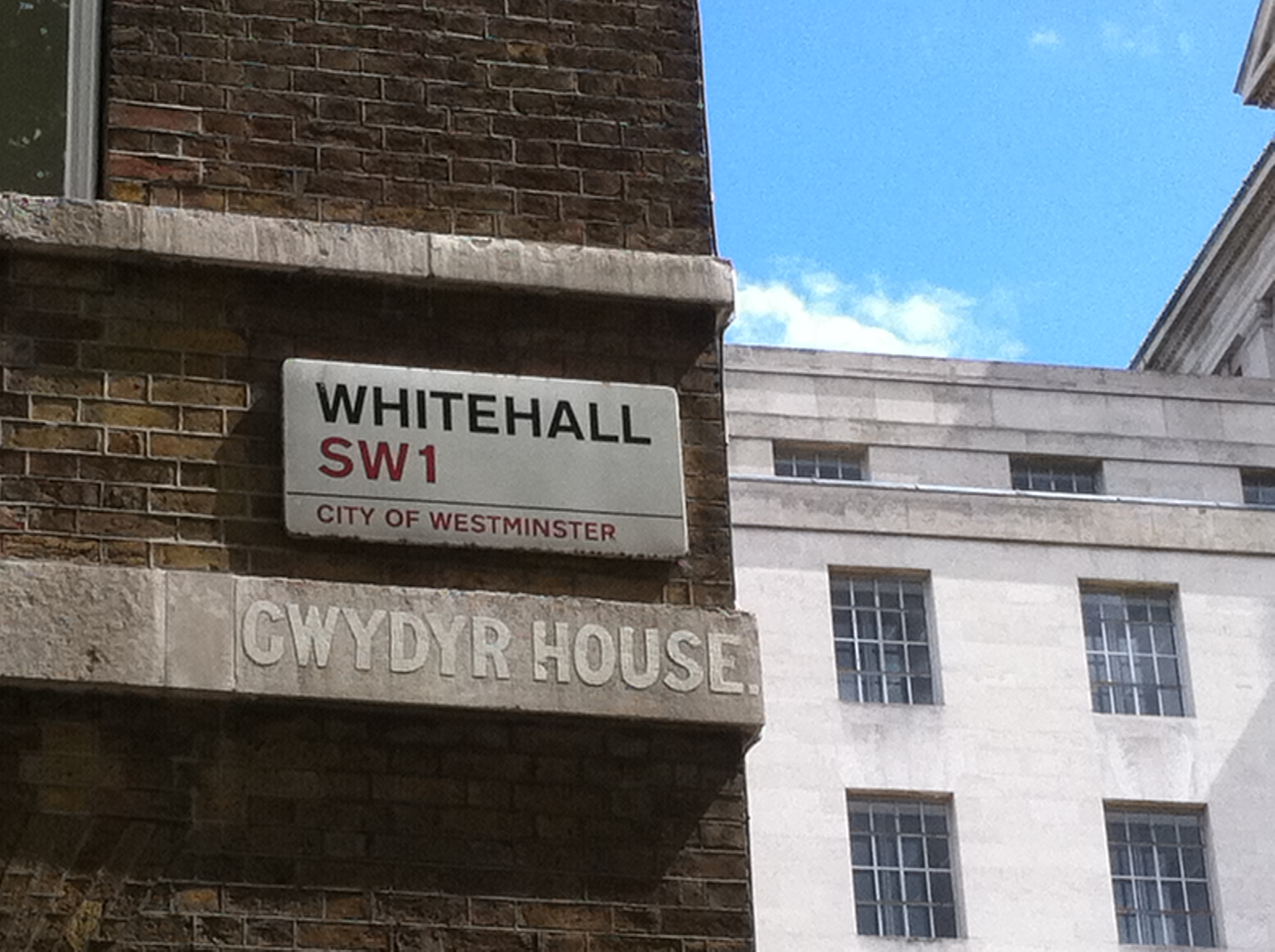 Wales Office, Gwydyr House, Whitehall